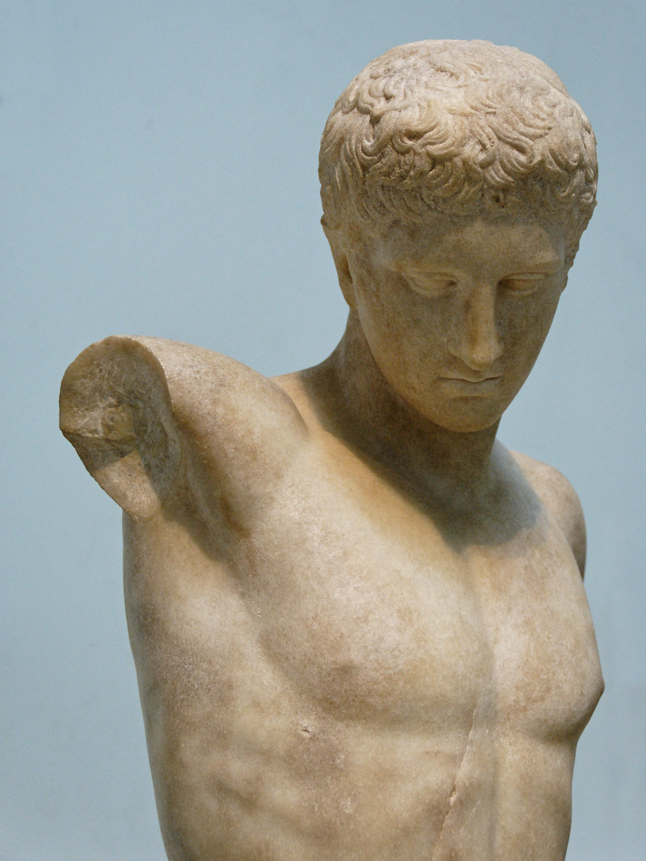 So-called Westmacott Athlete, statue of a victorious athlete crowning himself. Marble, Roman copy of the 1st century AD after a Greek original (the statue of Kyniskos?) of ca. 440 BC.